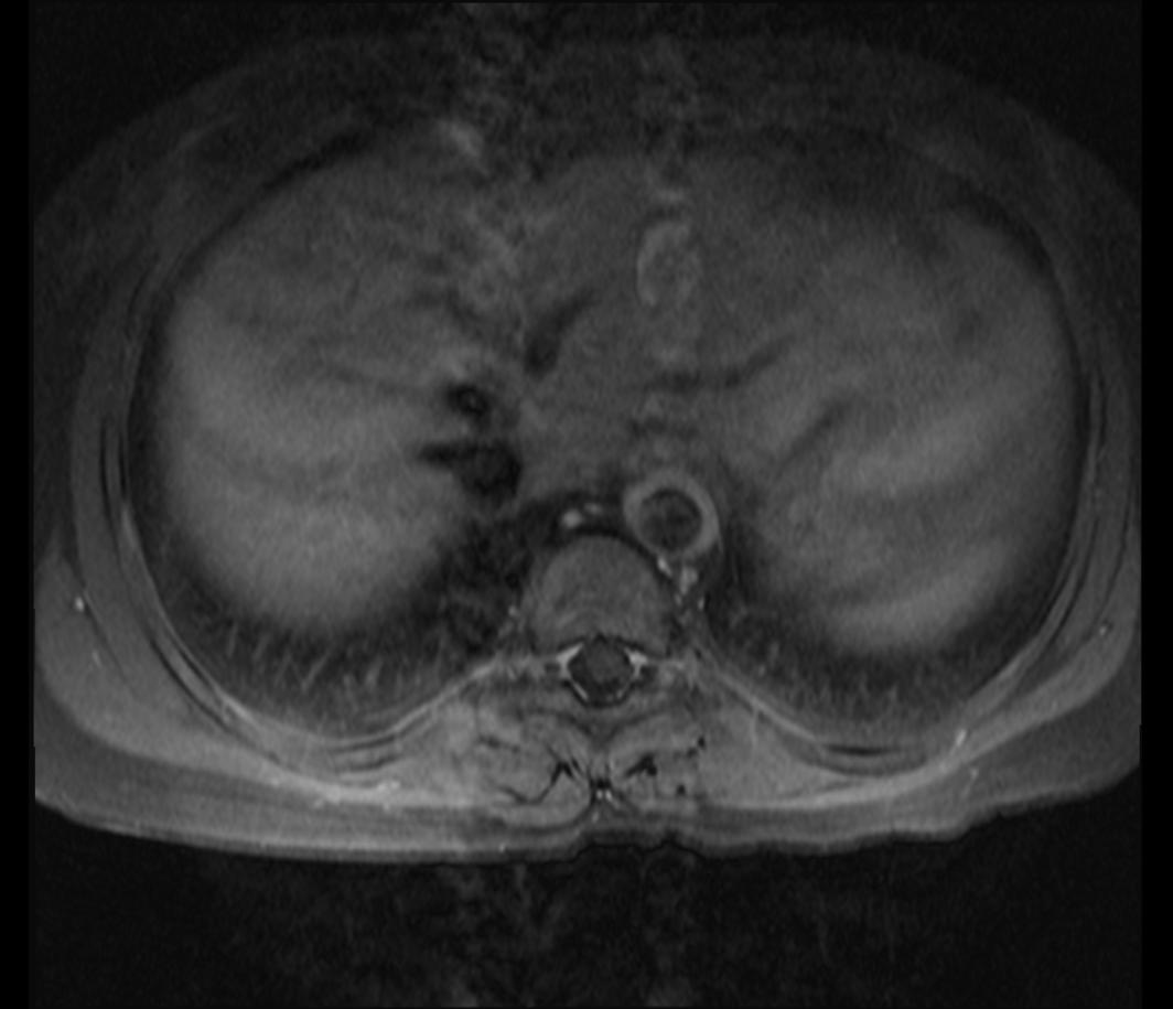 "15 year-old female patient with known Takayasu arteritis presented for MRI to investigate back pain. The axial T1-weighted post-gadolinium MRI above shows thickened, enhancing aortic wall, consistent with large vessel vasculitis." Dr Laughlin Dawes